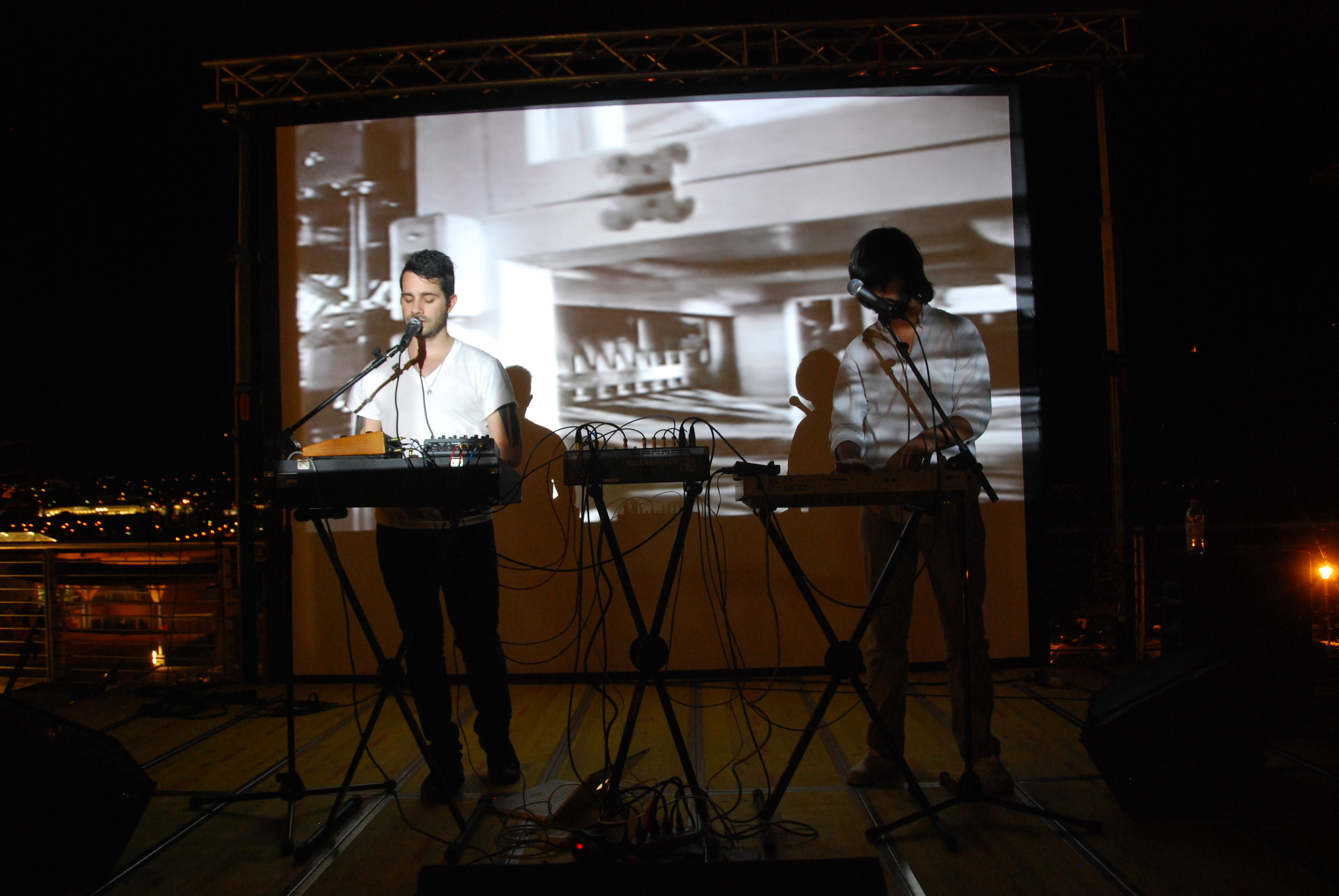 Telefon Tel Aviv (Joshua Eustis and Fredo Nogueira) performing in Trento in June 2009.